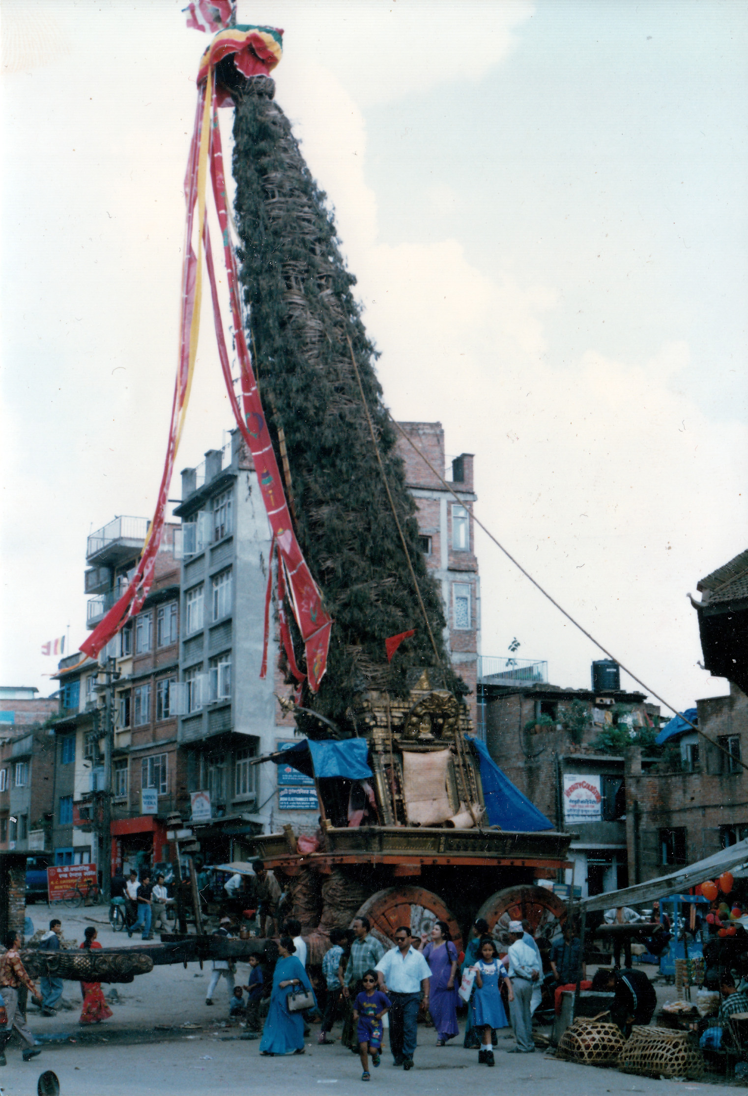 Festival chariot of Bunga Dyah (Red Machhindranath) in Patan, Nepal, ca 1999.